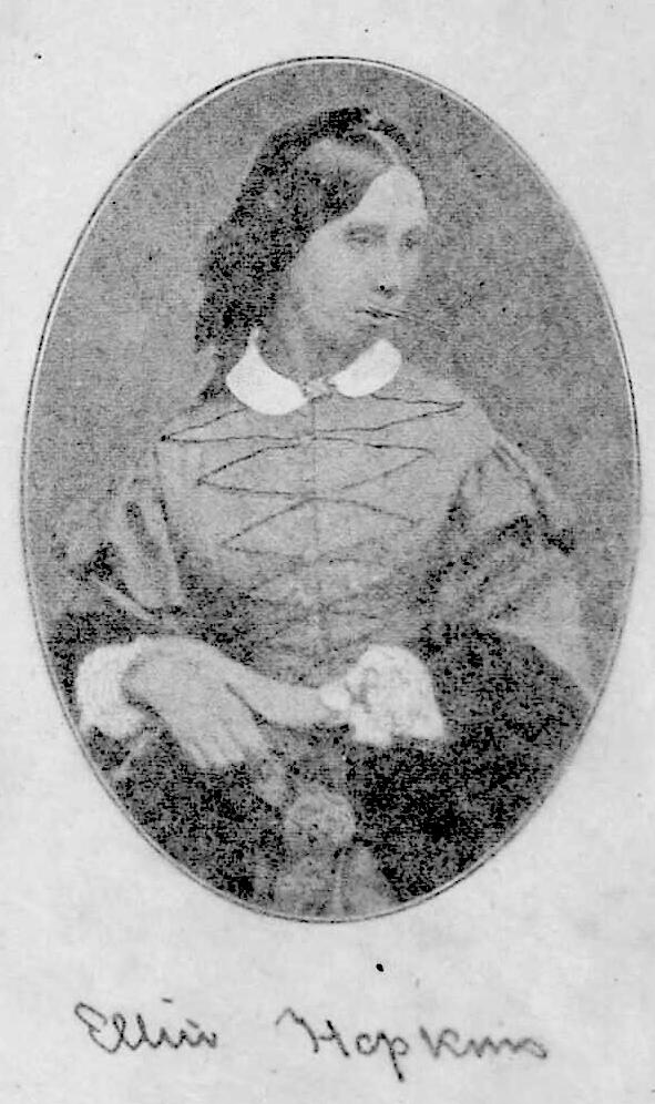 A white woman in the nineteenth century, wearing hair center-parted and smoothed back into a low chignon, a voluminous dress with a high collar. Under the portrait in the oval frame is the signature "Ellice Hopkins".